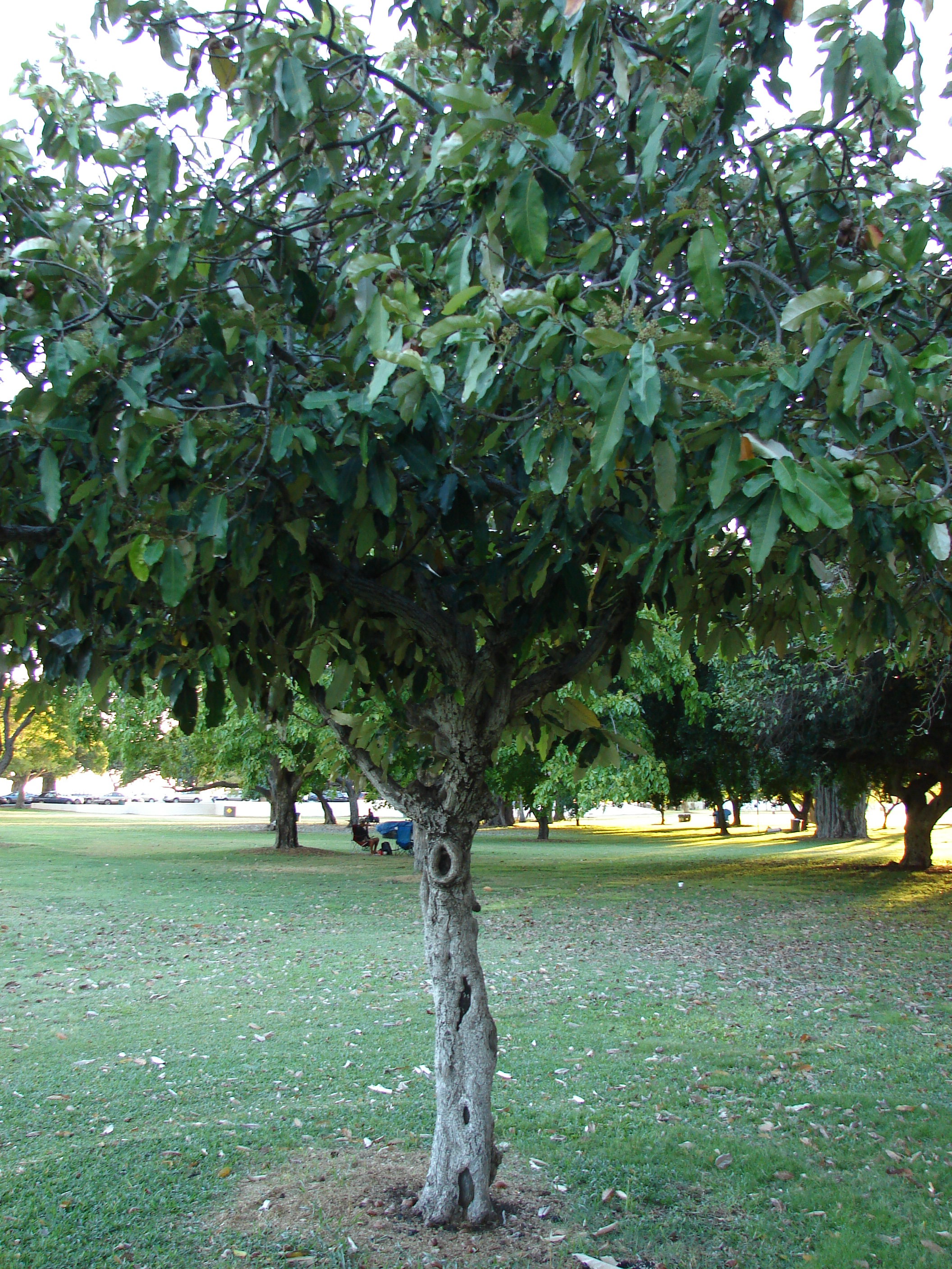 Heritiera littoralis (habit). Location: Oahu, Ala Moana Beach Park